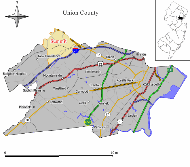 Source: Jim Irwin Original work by Jim Irwin, December 2005.